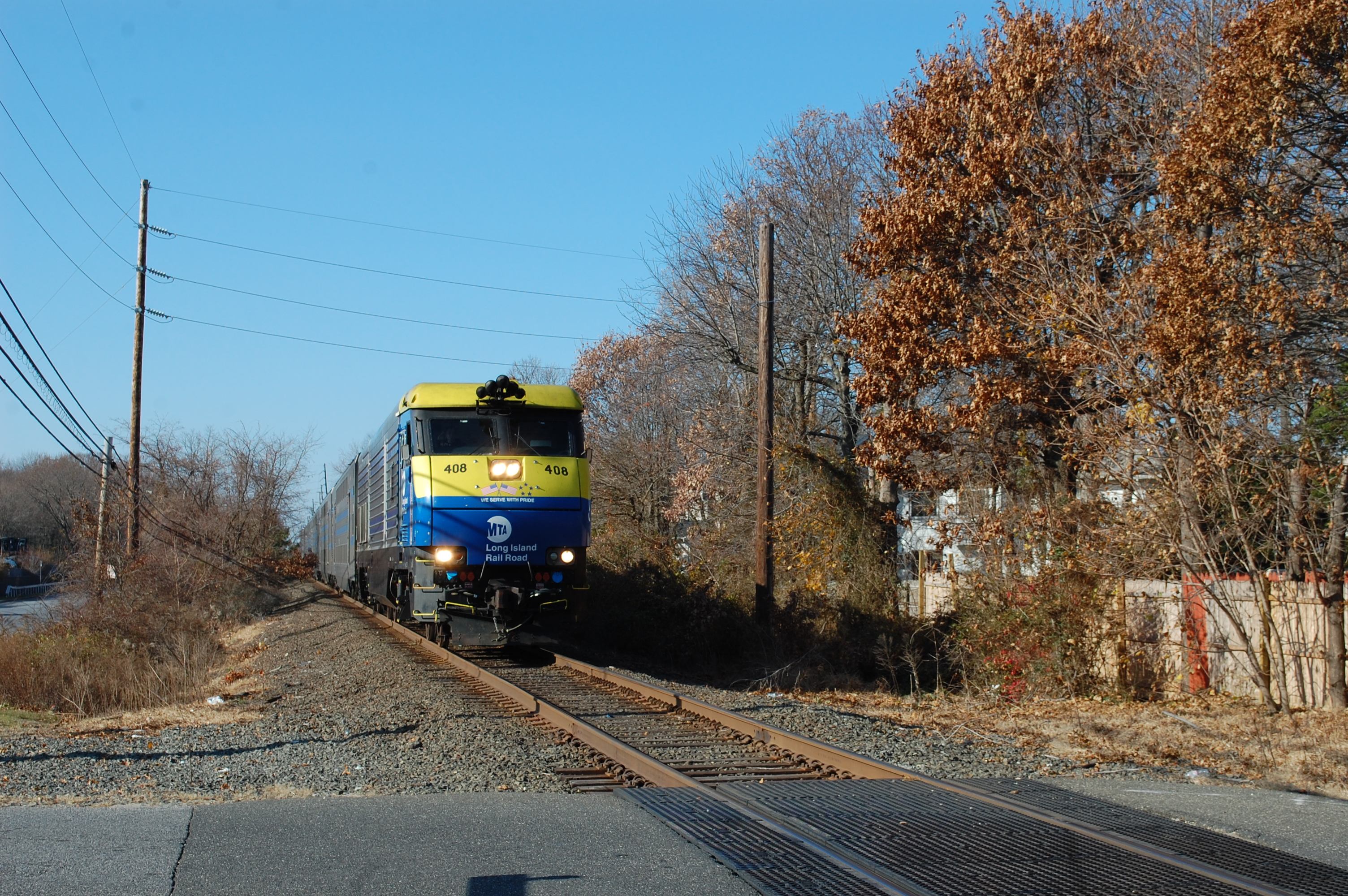 DE30 #408 with six bilevels on a Eastbound train (Weekends only 12:10 ex-Jamaica) via the Central Branch in West Babylon, N.Y.